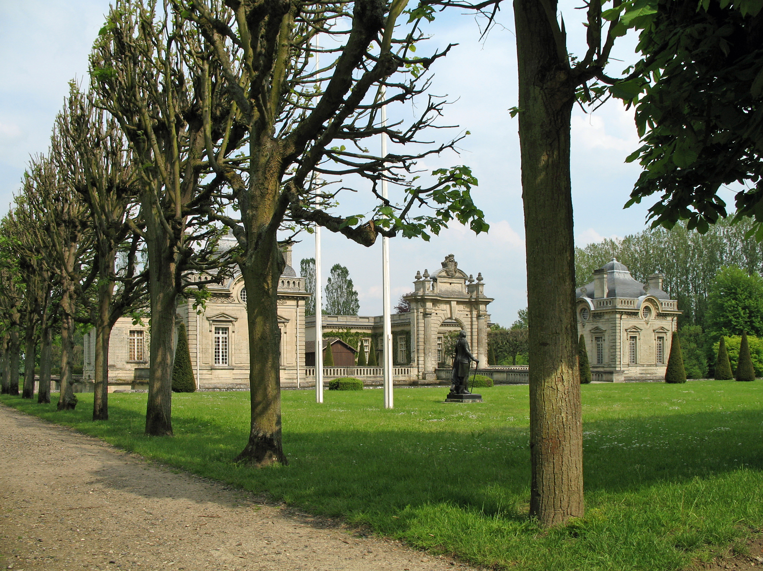 Blérancourt (département de l'Aisne, France): the castle